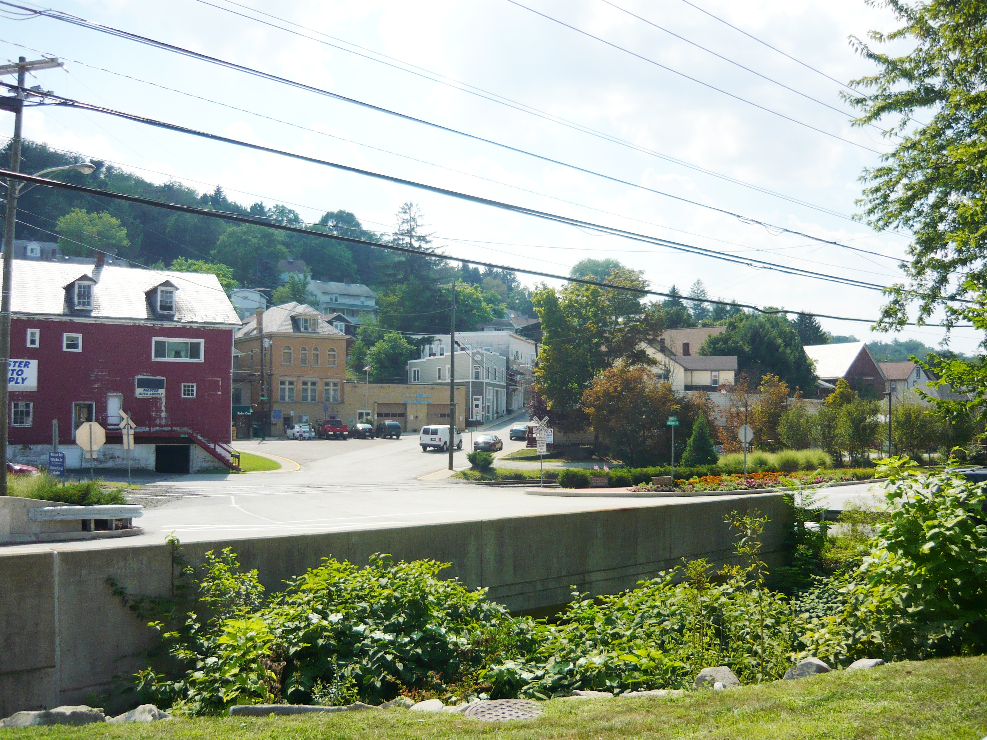 Business district of Export, Westmoreland County, Pennsylvania. Photo taken from Kennedy Avenue (Old William Penn Highway), looking toward the southwest.